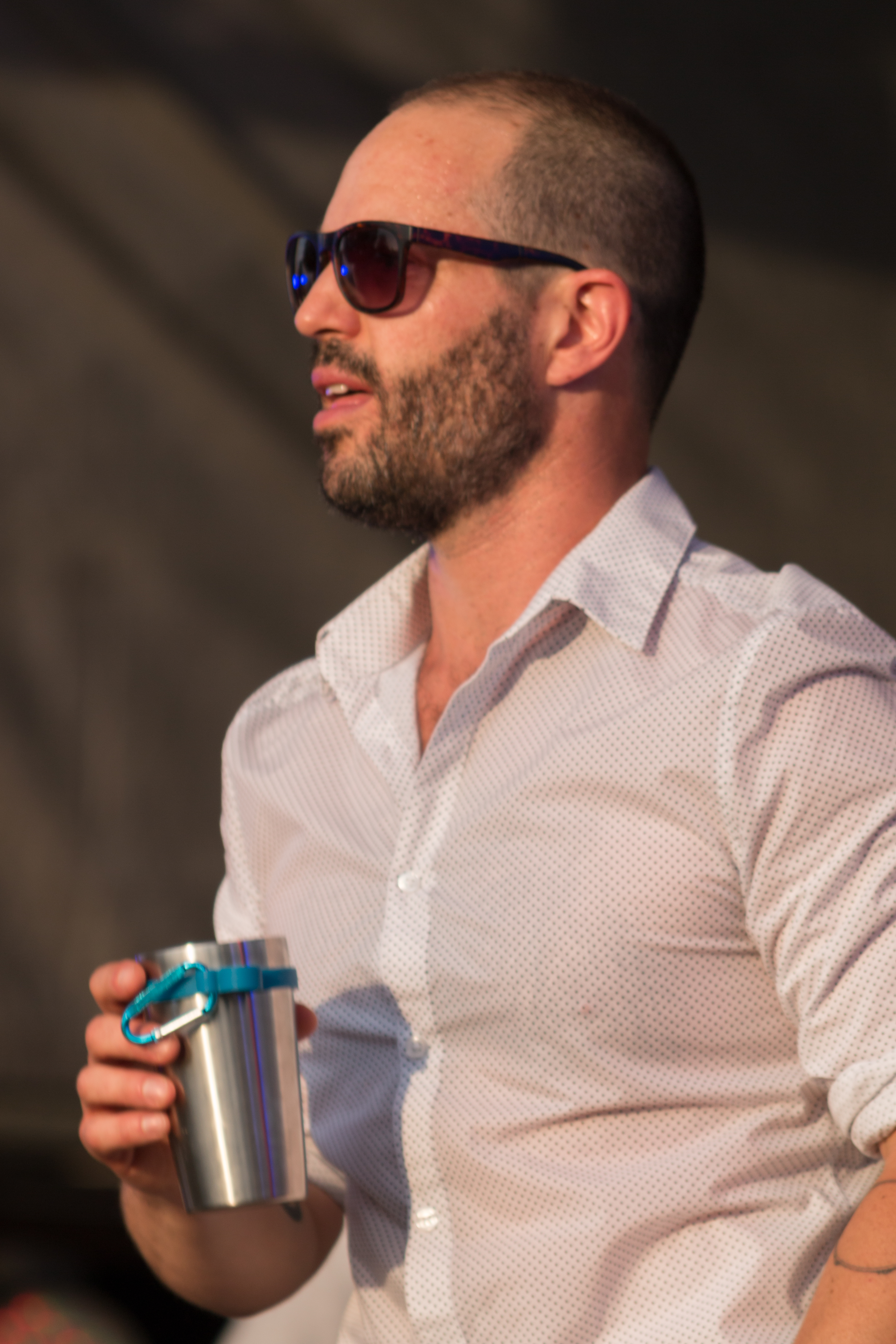 Nathan Lawr performing at the 2015 Hillside Festival in Guelph, ON